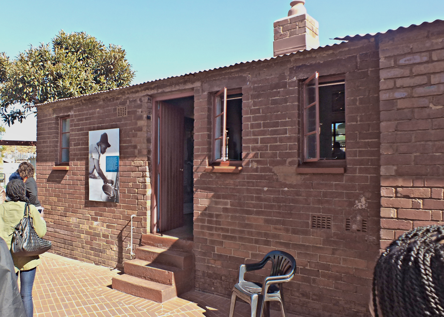 The Mandela House, located in the township of Soweto in Johannesburg, South Africa, is the former home of former South African president and his wife, Nelson Mandela and Winnie Mandela. This was the home for Nelson Mandela before his 27-year imprisonment, and his home immediately after being released from prison. The home is now a museum.